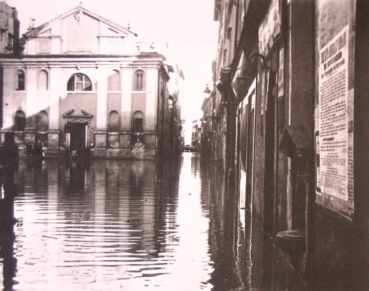 The Church of S. Giacomo Scossacavalli in Piazza Scossacavalli and the Borgo Vecchio road in Rome towards east, flooded on 15 February 1915